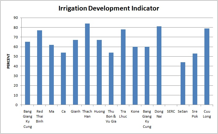 IrrigationDevelopmentIndicator